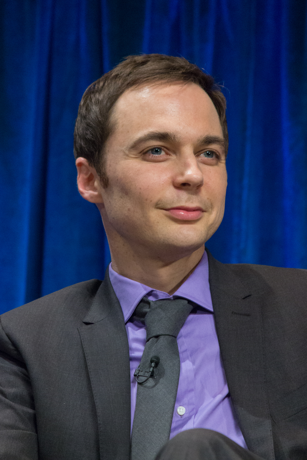 Jim Parsons at PaleyFest 2013 for the TV show "Big Bang Theory"